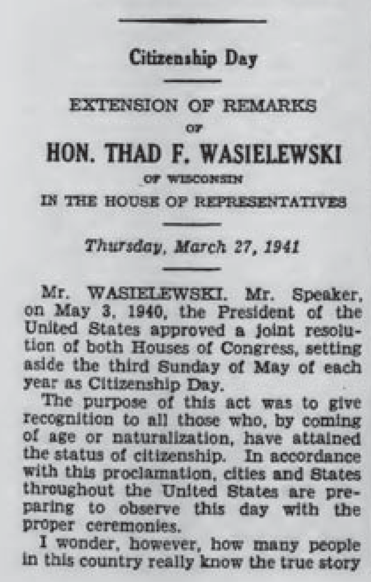 Image of page of Congressional Record